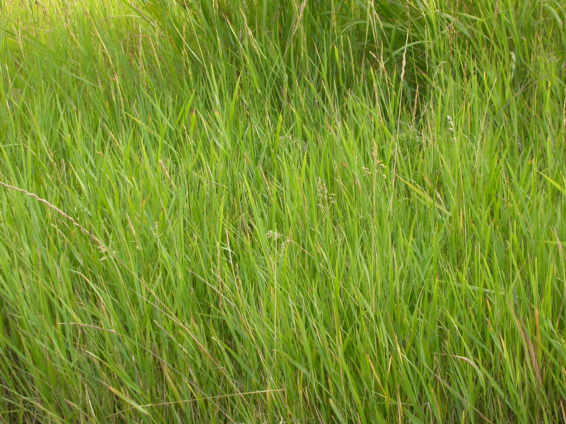 Quackgrass form dense leafy stands usually in disturbed sites where ground water is available.